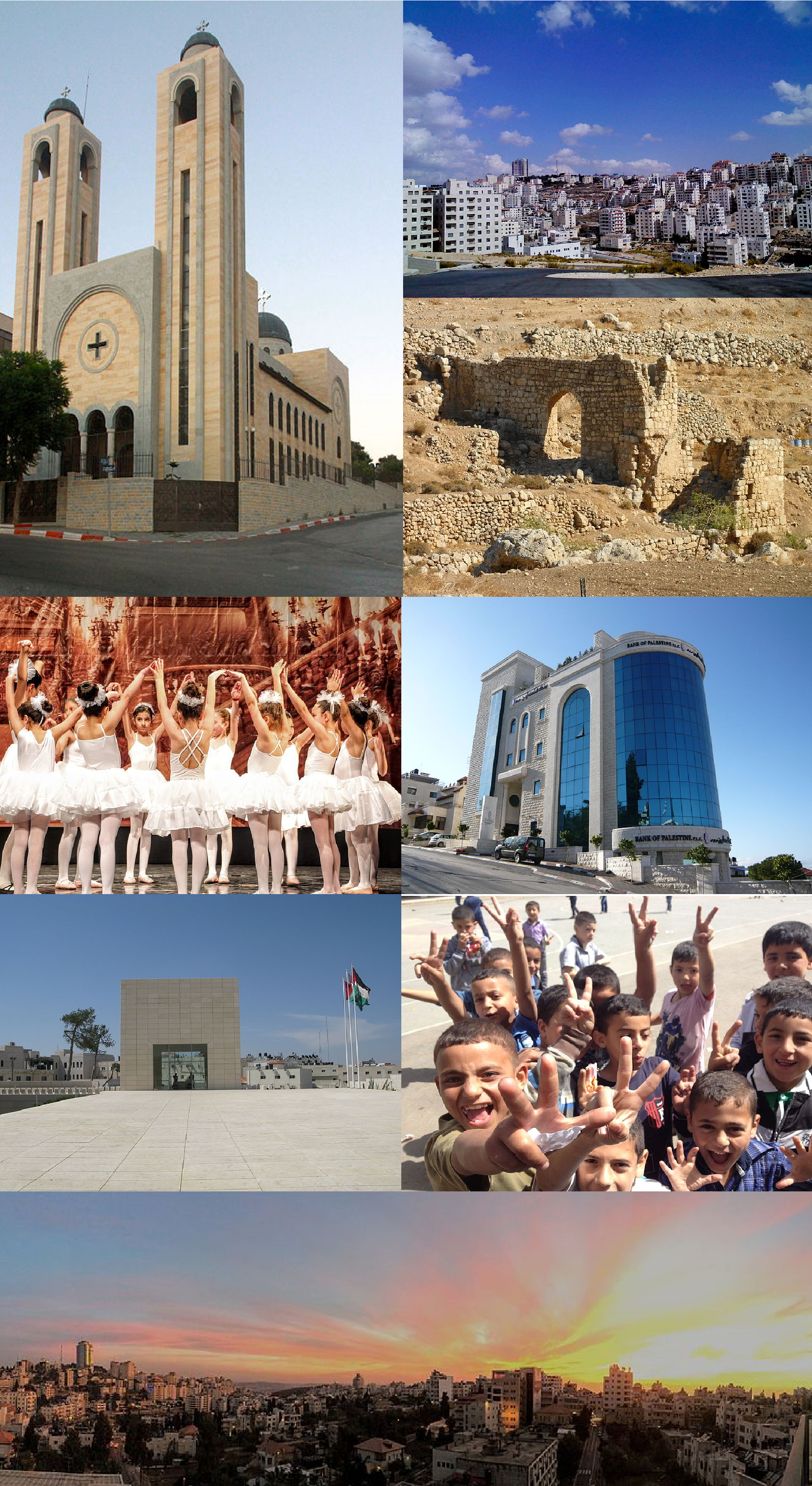 Ramala-Ramallah collage, Palestine